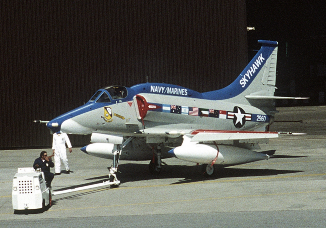 The last of the many: rollout of the last of 2,960 (McDonnell) Douglas A-4 Skyhawks at the company's plant at Long Beach, California (USA), on 27 February 1979. The aircraft was an A-4M, BuNo 160264, which is today on display at the Flying Leatherneck Aviation Museum at Miramar, California (USA).